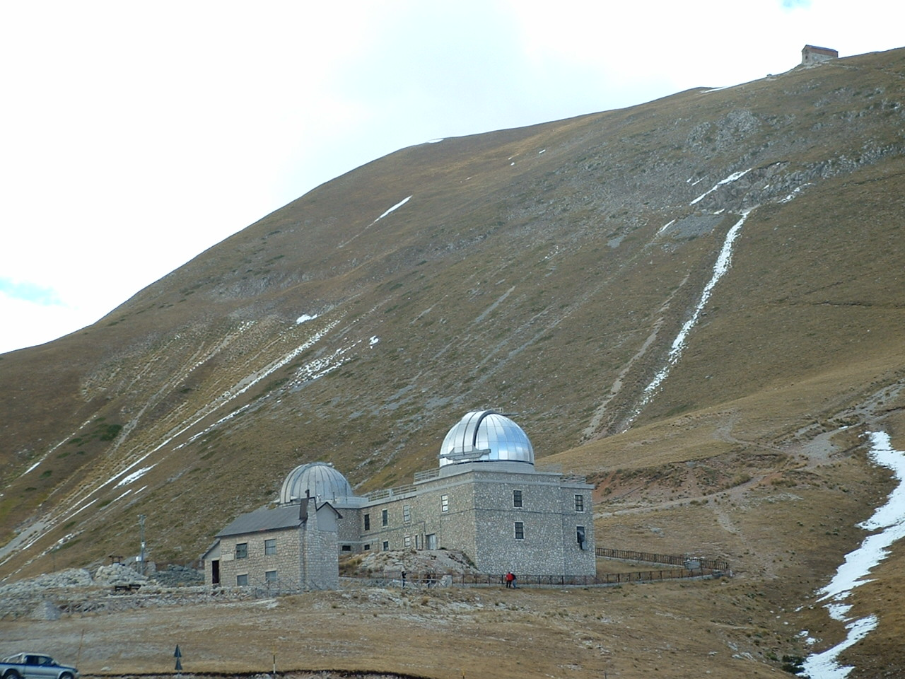 Observatory of Campo Imperatore, Gran Sasso